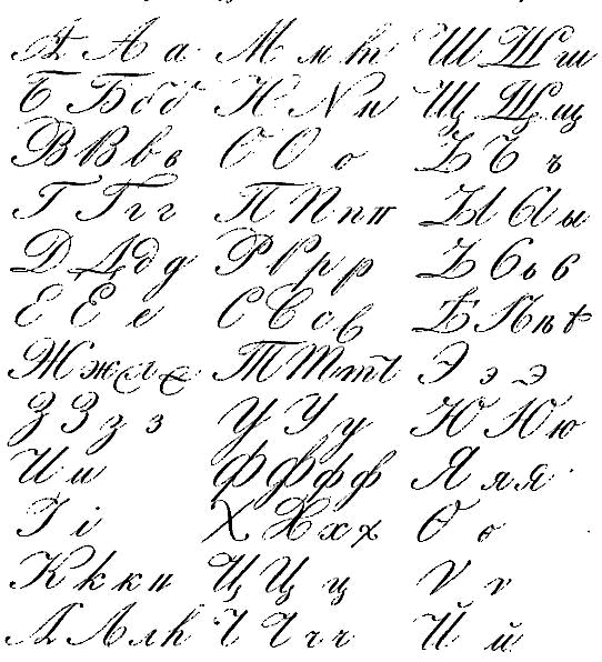 Russian handwriting of the 19 century